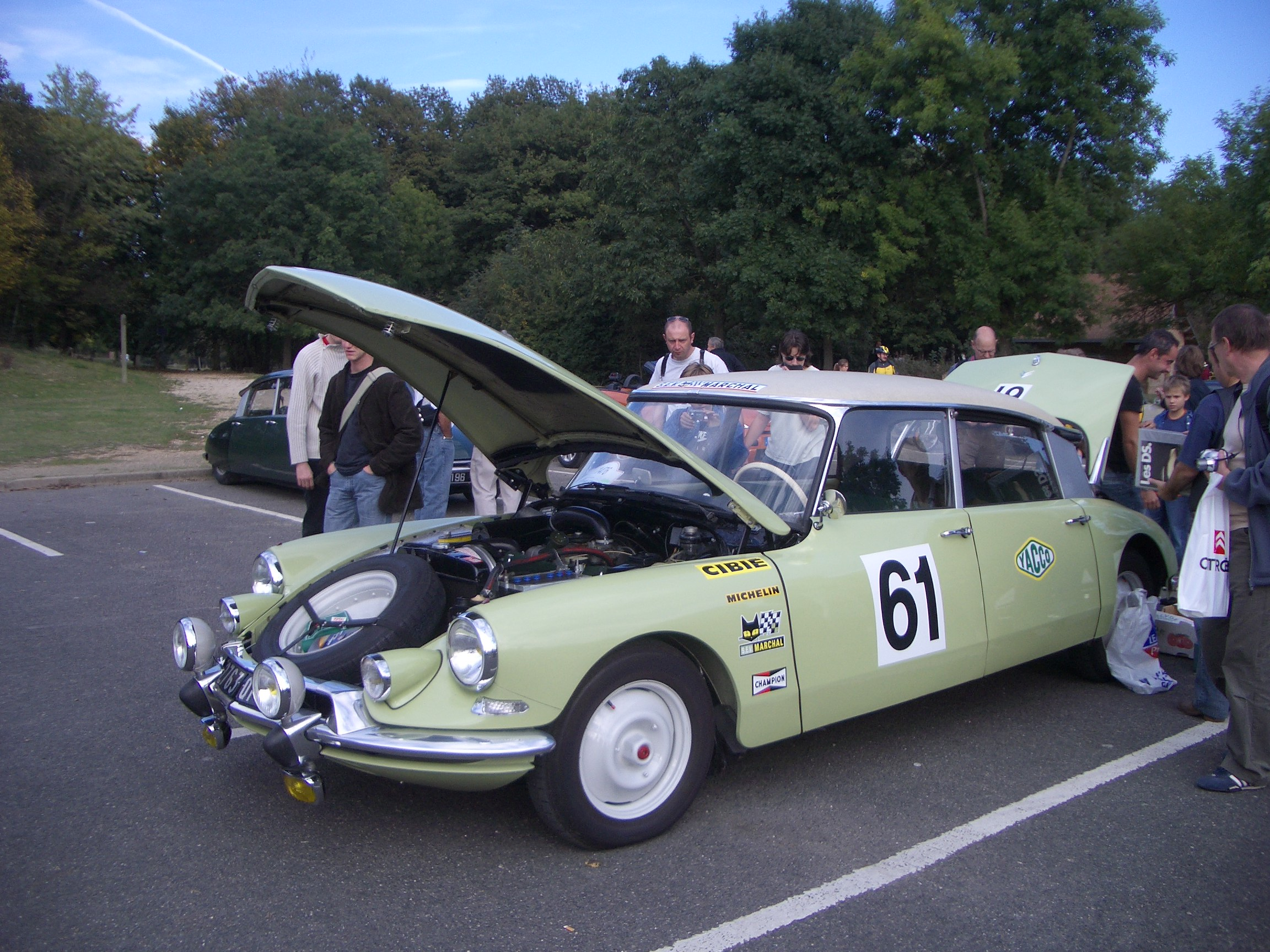 This is a picture of a vehicle (name of it is on the file name).